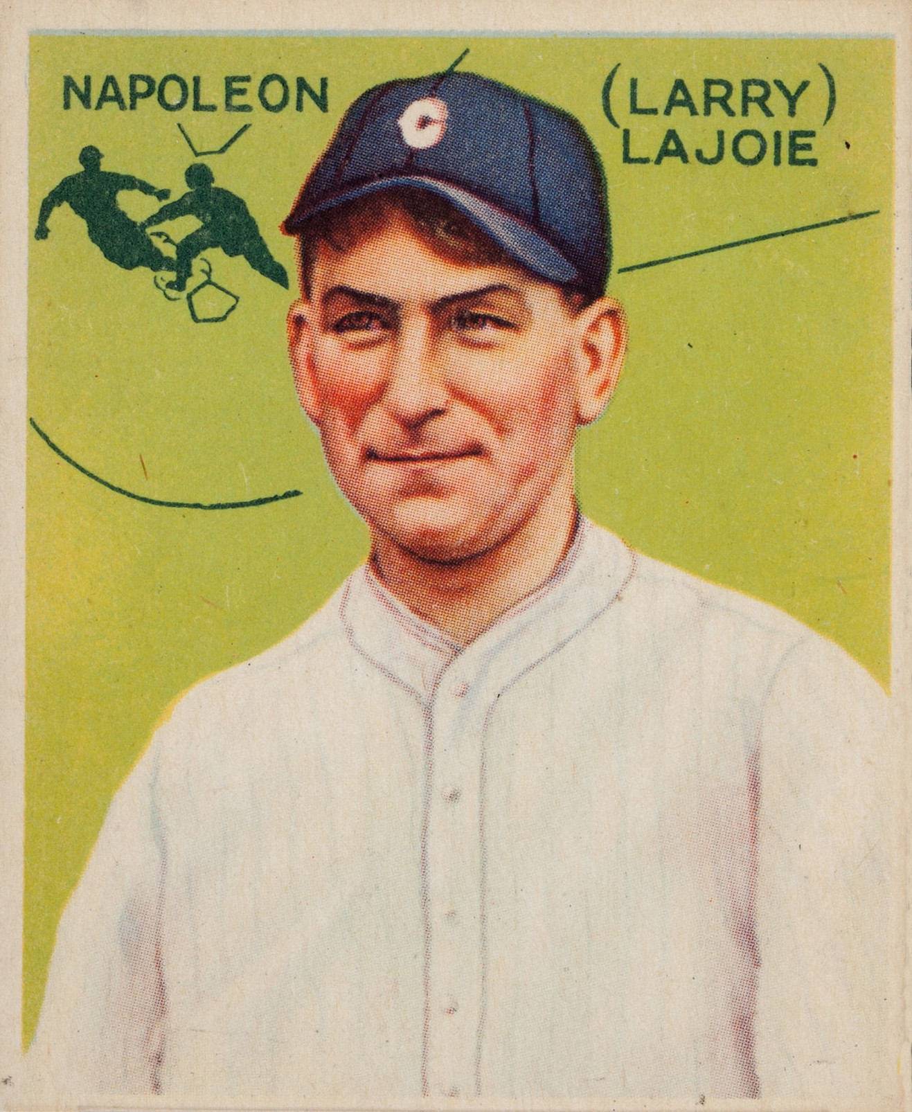 1933 Goudey baseball card of Napoleon "Nap" Lajoie of the Cleveland Indians. PD-not-renewed.